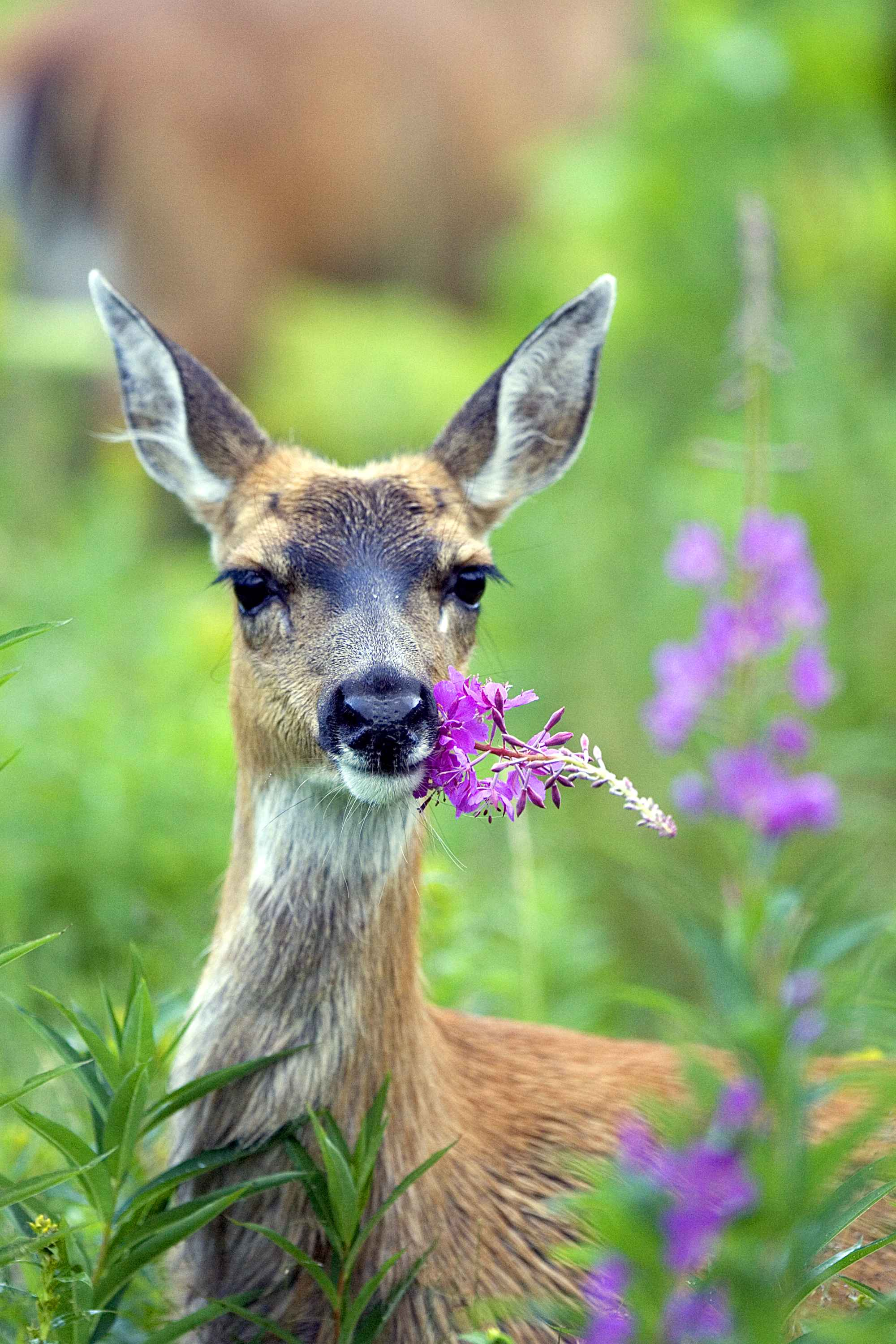 Image title: Sitka black tailed deer with fireweed Image from Public domain images website